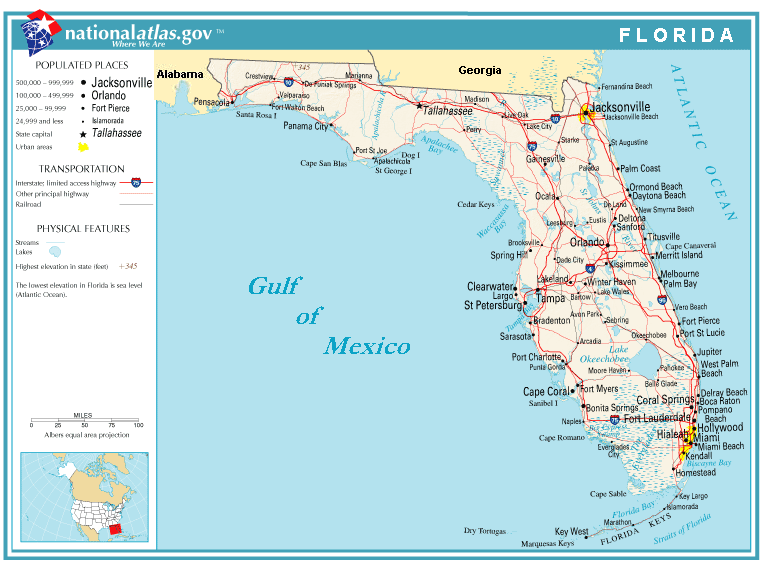 This image was copied from en. Description: Road map of Florida, with major roads, from the U.S. Government National Atlas (trimmed/edited to bold names of Florida, Georgia, Alabama, "Gulf of Mexico" and cities). The file is in GIF format, 9x faster than PNG format, displaying up to 30 seconds faster than the PNG-format file, but also with clear colors. The file is intended for use in frequently-read articles, where faster image display affects many users. Transwiki approved by: User:Dmcdevit